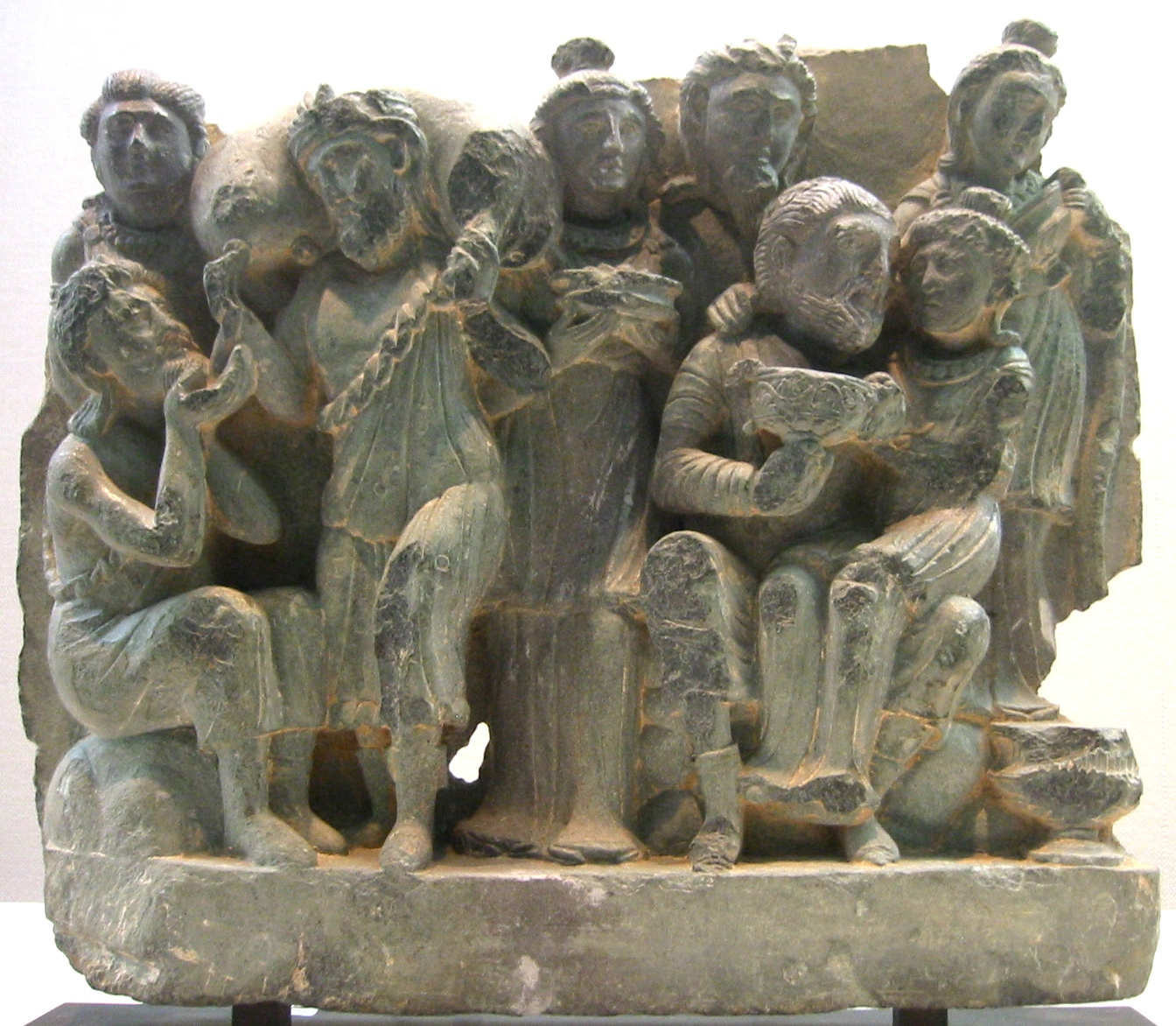 Drinking scene. Greco-Buddhist art of Gandhara. Dated 3rd century AD. Tokyo National Museum. Personal photograph 2005.